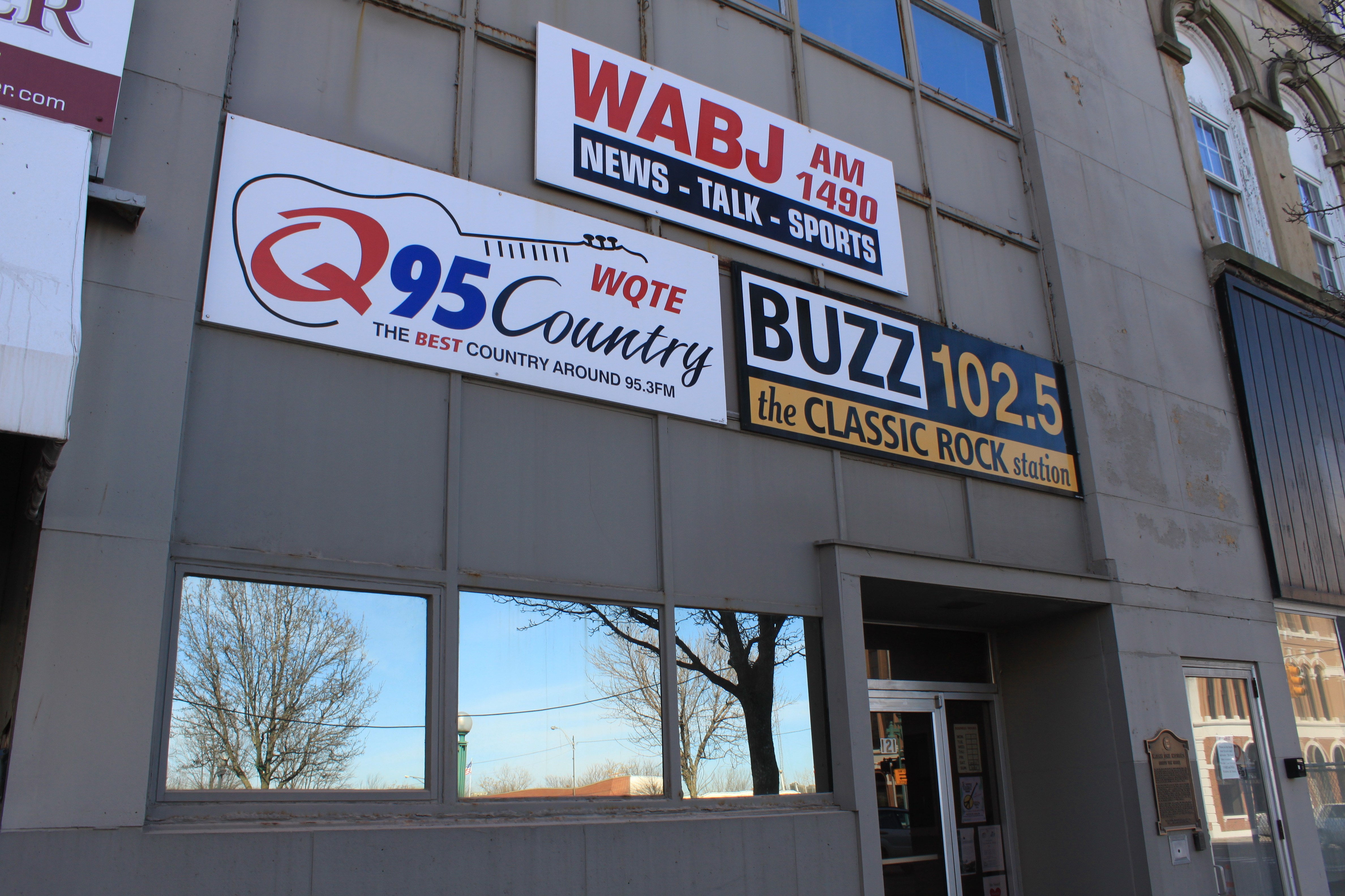 Entrance to the studios of radio stations WABJ, WQTE & WBZV, 121 West Maumee Street, Adrian, Michigan.